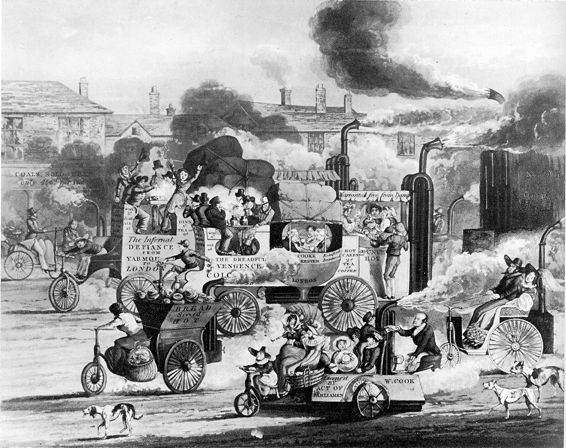 A satire on the coming age of free-running steam carriages (which largely never materialized, but see Walter Hancock). The two large steam coaches are named "The Infernal Defiance — From Yarmouth to London" and "The Dreadful Vengeance — Colchester, London". On the rear of the coach in front is a banner proclaiming "Warranted free from Damp", the small delivery wagon has "Bread served Hot" on its side, and the service station proclaims "Coals Sold Here: only 4s. 6d. per Pound(?)" As documented in Paul Johnson's book The Birth of the Modern, the early British railroad companies used their political influence to preclude possible competition from free-running steam coaches (which may not have been ultimately too practicable at that time anyway...) A futuristic view of the traffic and pollution problems to come, 1831. Steam carriages had already been tried, with limited success